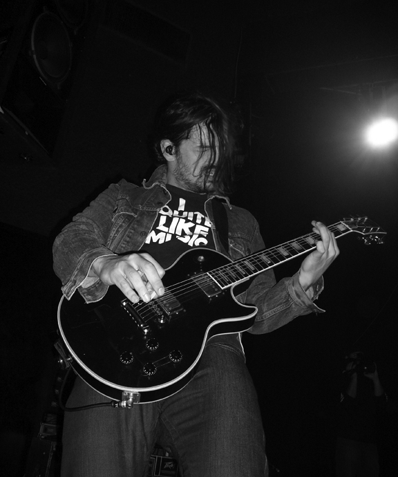 Tomo Miličević live with 30 Seconds to Mars at The Varsity in Baton Rouge on December 7, 2009.